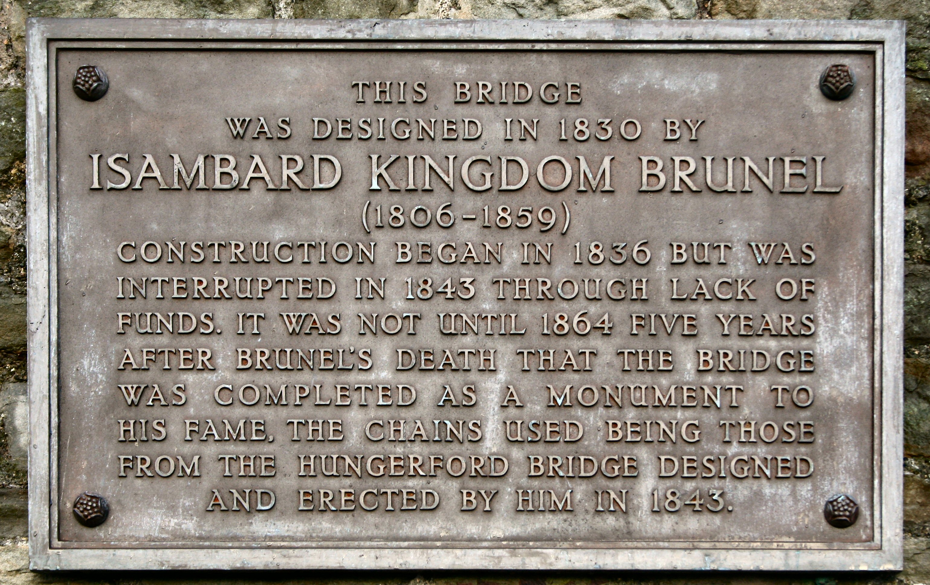 A plaque from Clifton Suspension Bridge in Bristol, England